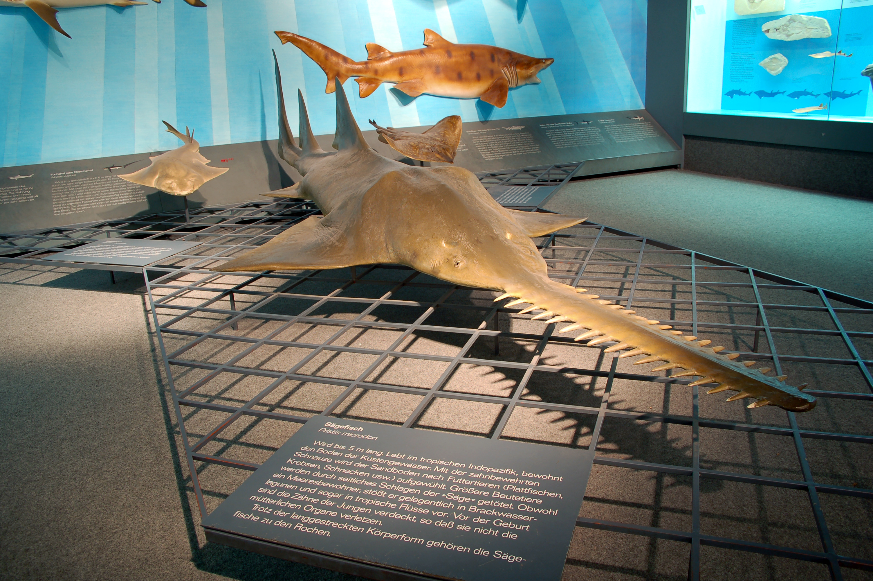 Largetooth Sawfish (Pristis microdon), Senckenberg Museum in Frankfurt am Main